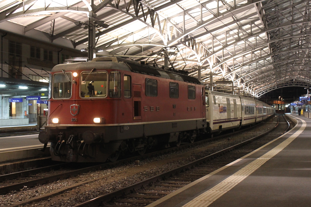 SBB CFF FFS Re 4/4 II 11151 at Lausanne ahead of EuroNight 274 "Pau Casals" to Barcelona.